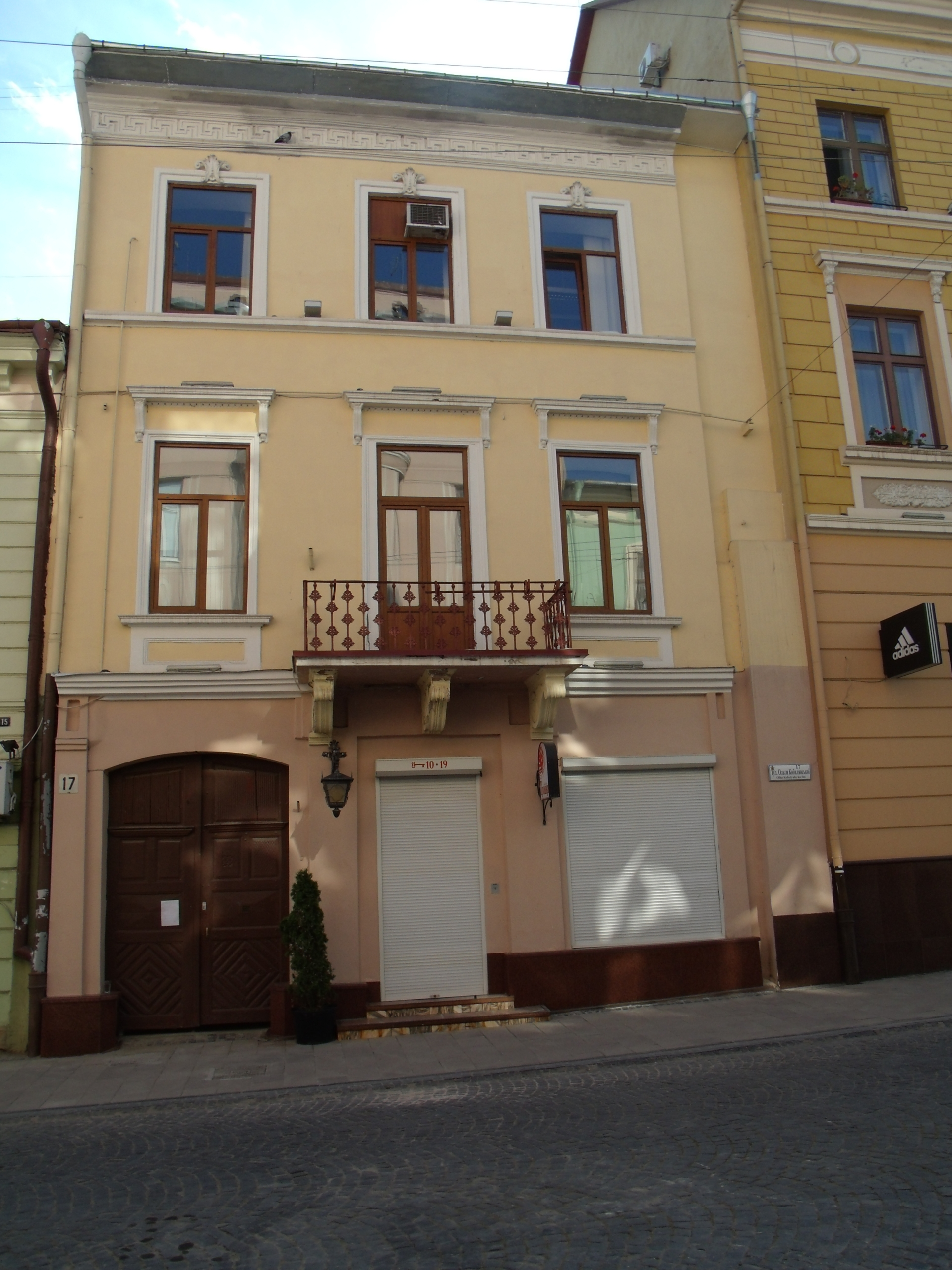 Chernivtsi, Kobylianska house 17